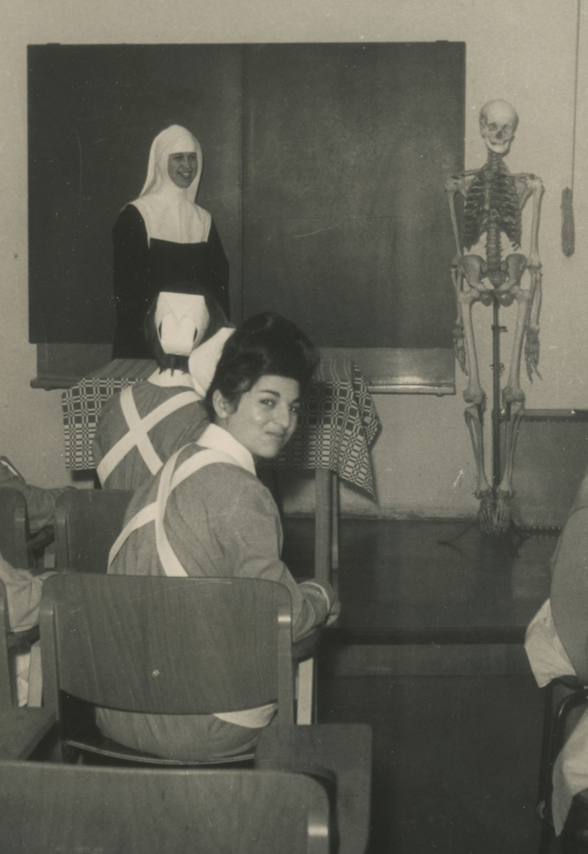 Teaching at the Innsbruck nursery college